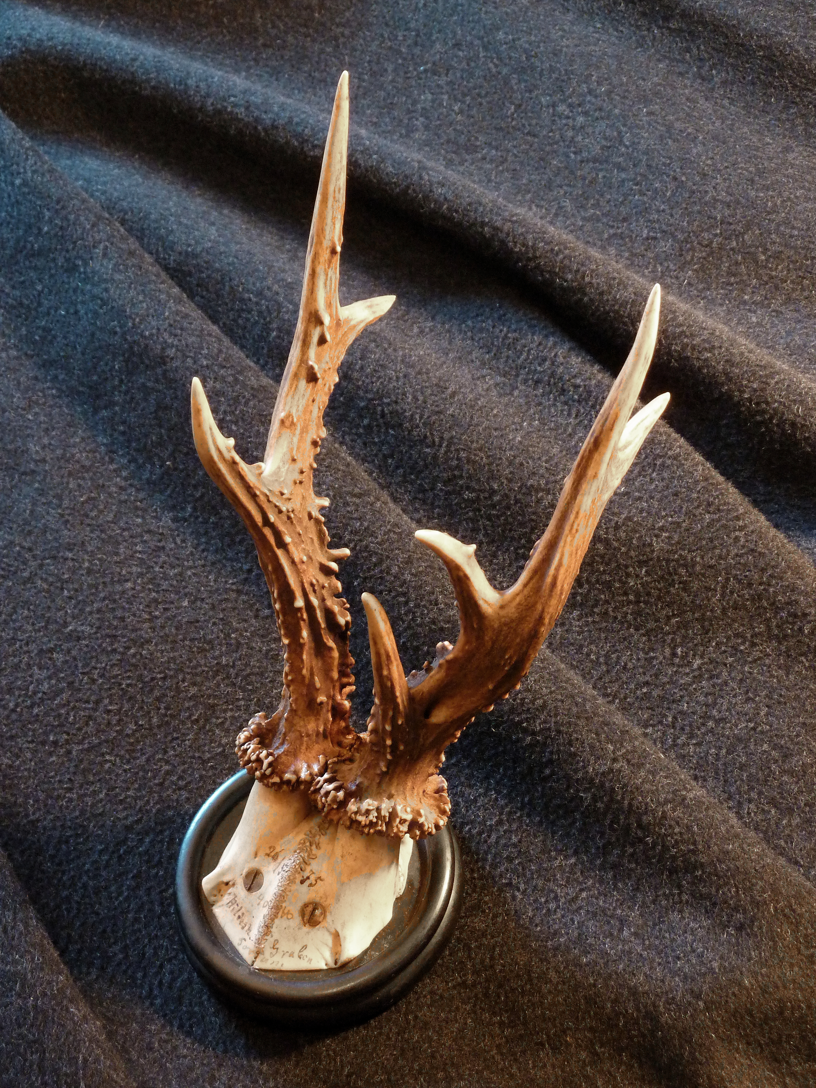 Antler of a male European roe deer (“roebuck”), (Capreolus capreolus). Hunting trophy of the year 1975, shot and formerly owned by one of my grandfathers, wo was a forester. Self-photographed in the year 2009 on a dark grey loden cape as background.